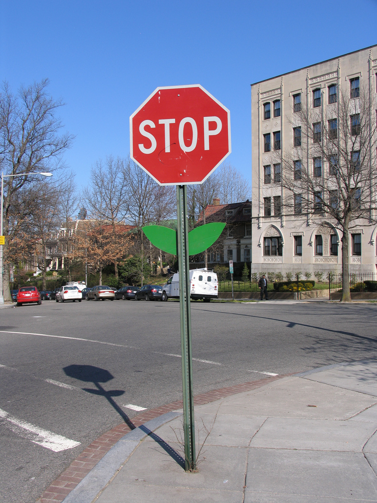 "Signs of Spring" by Mark Jenkins, a sculpture in Washington, DC. Medium: Painted cardboard attached to stop sign.